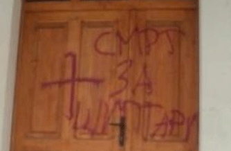 Writings on a mosque door in Macedonian meaning "Death to Albanians"